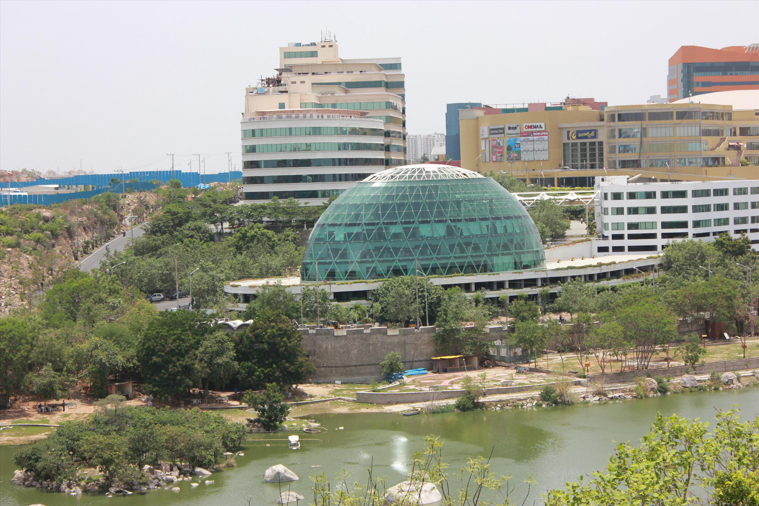 View from Durgam Cheruvu.